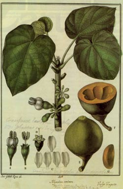 Flora Huayaquilensis was lost for over 200 years in the archives at the Royal Botanical Gardens in Madrid and in 1985 Dr. Eduardo Estrella found evidence Juan José Tafalla Navascués, South America, land of the Audiencia of Quito and his unpublished papers and after three years of work in the public archives Huayaquilensis Flora.